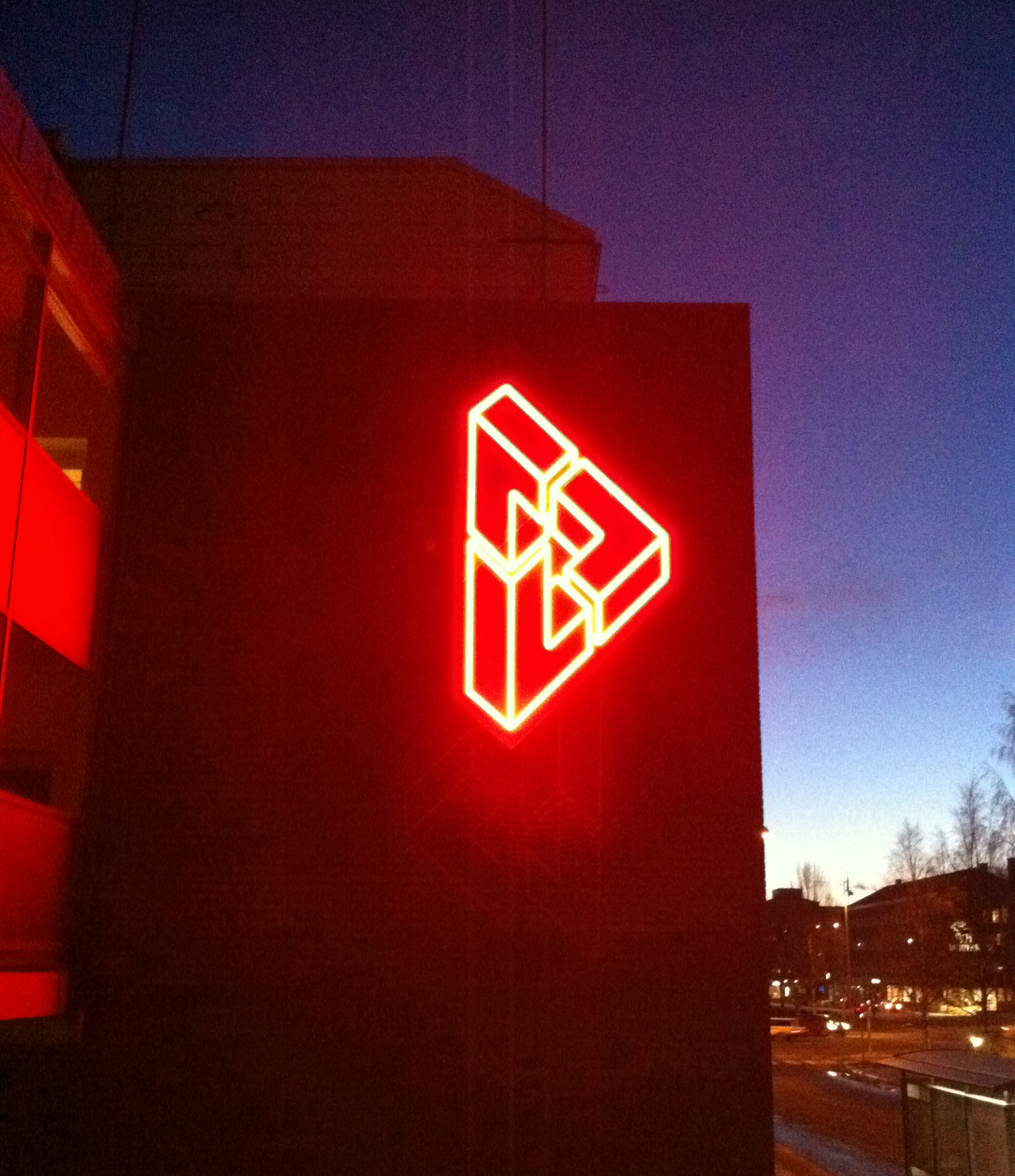 ´n Oscars loop - impossible object art by Oscar Reuterswärd in Skellefteå